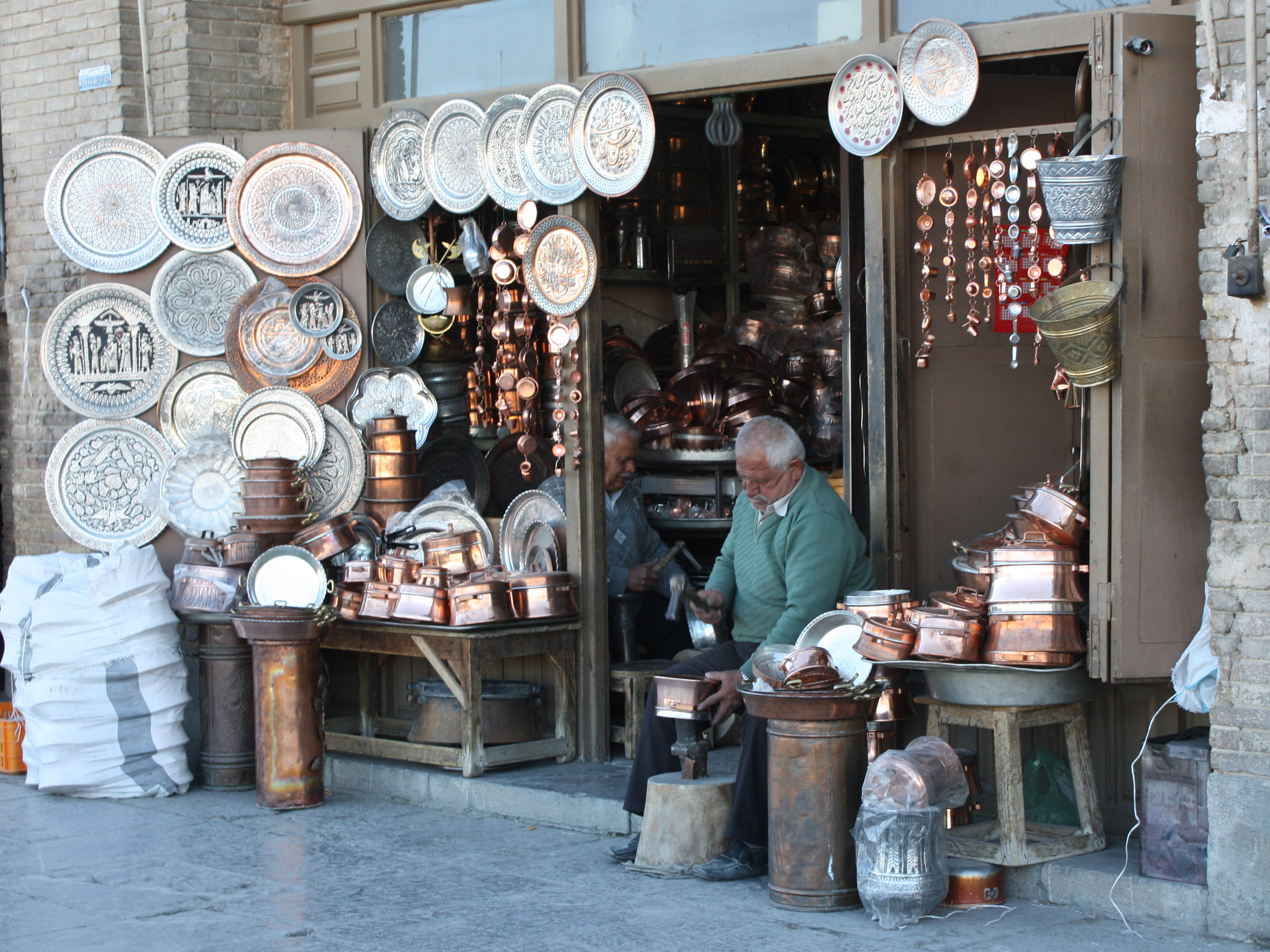 Old men making handicrafts in Naqsh-e Jahan Square